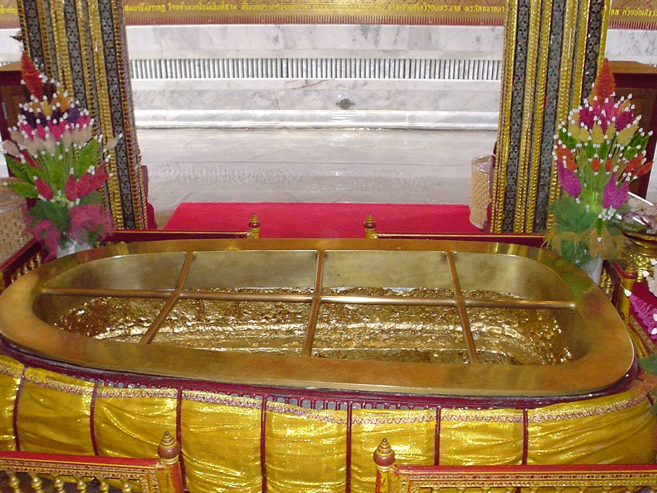 Buddha footprint in Wat Phra Buddha Baat in Saraburi province, Thailand Photo taken by User:Ahoerstemeier on December 4 2002.